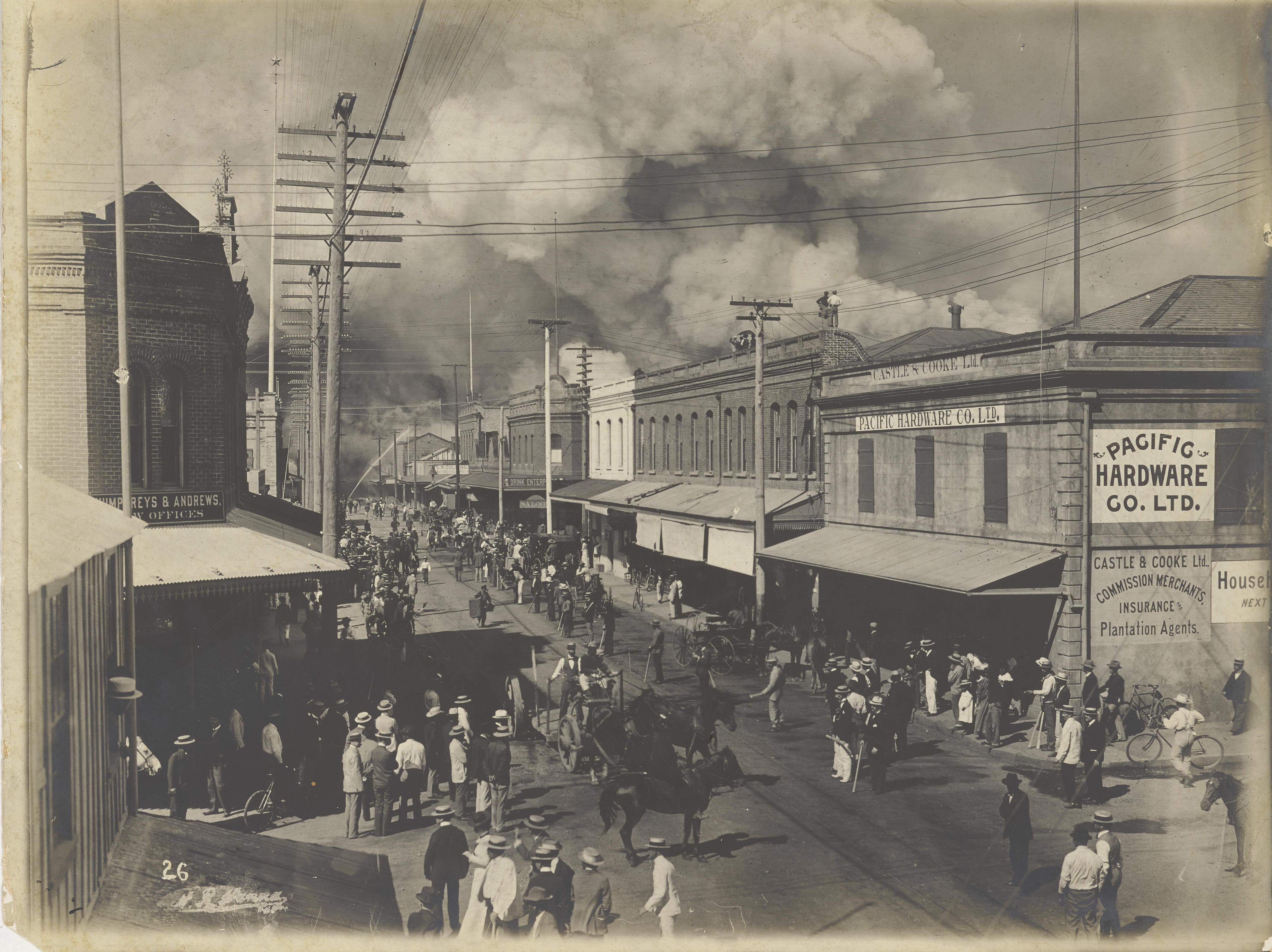 A fire in 1900 burned most of the Chinatown of Honolulu. The fire had been set to destroy houses suspected of being infected with bubonic plague.